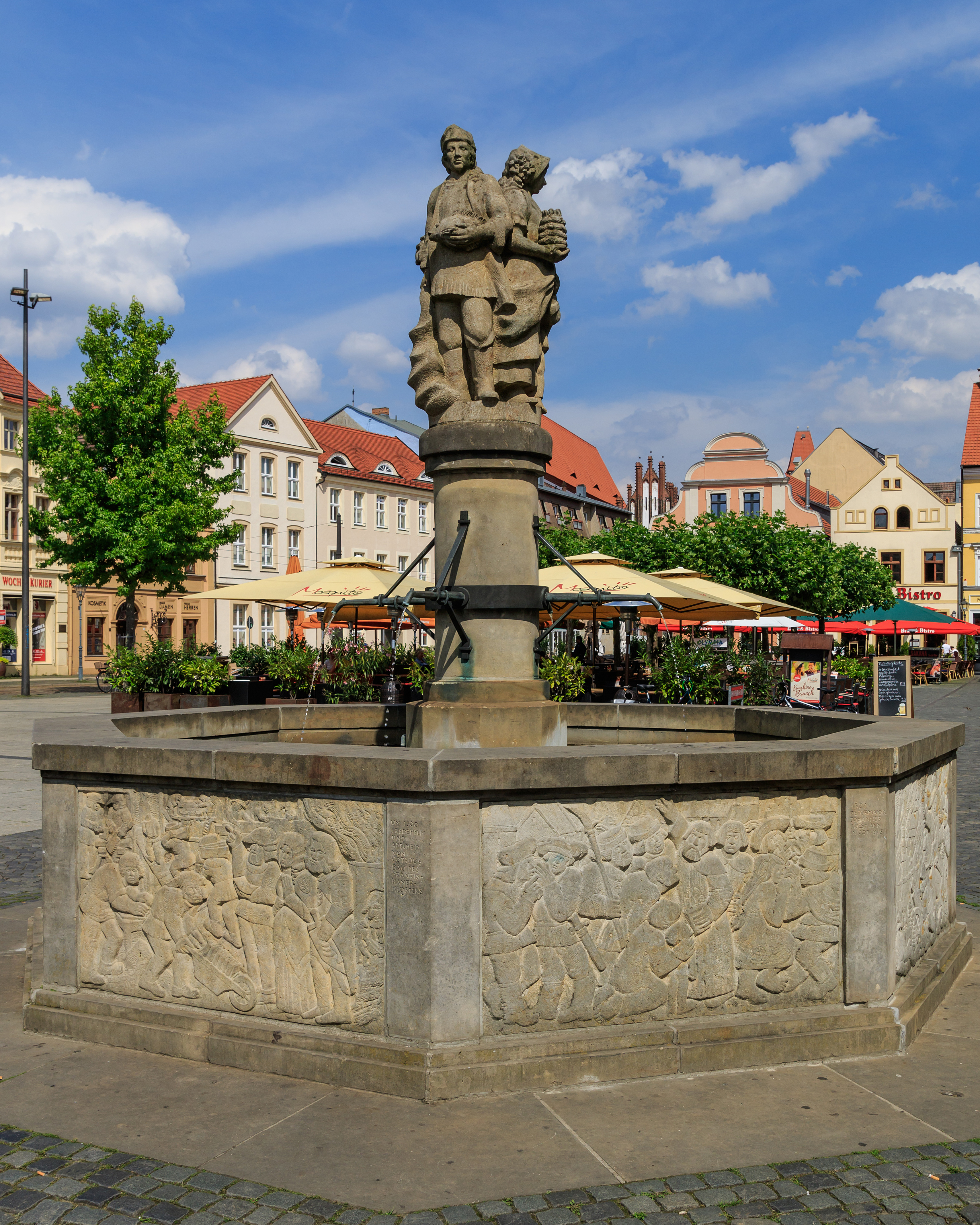 Market Square in Cottbus (Germany)